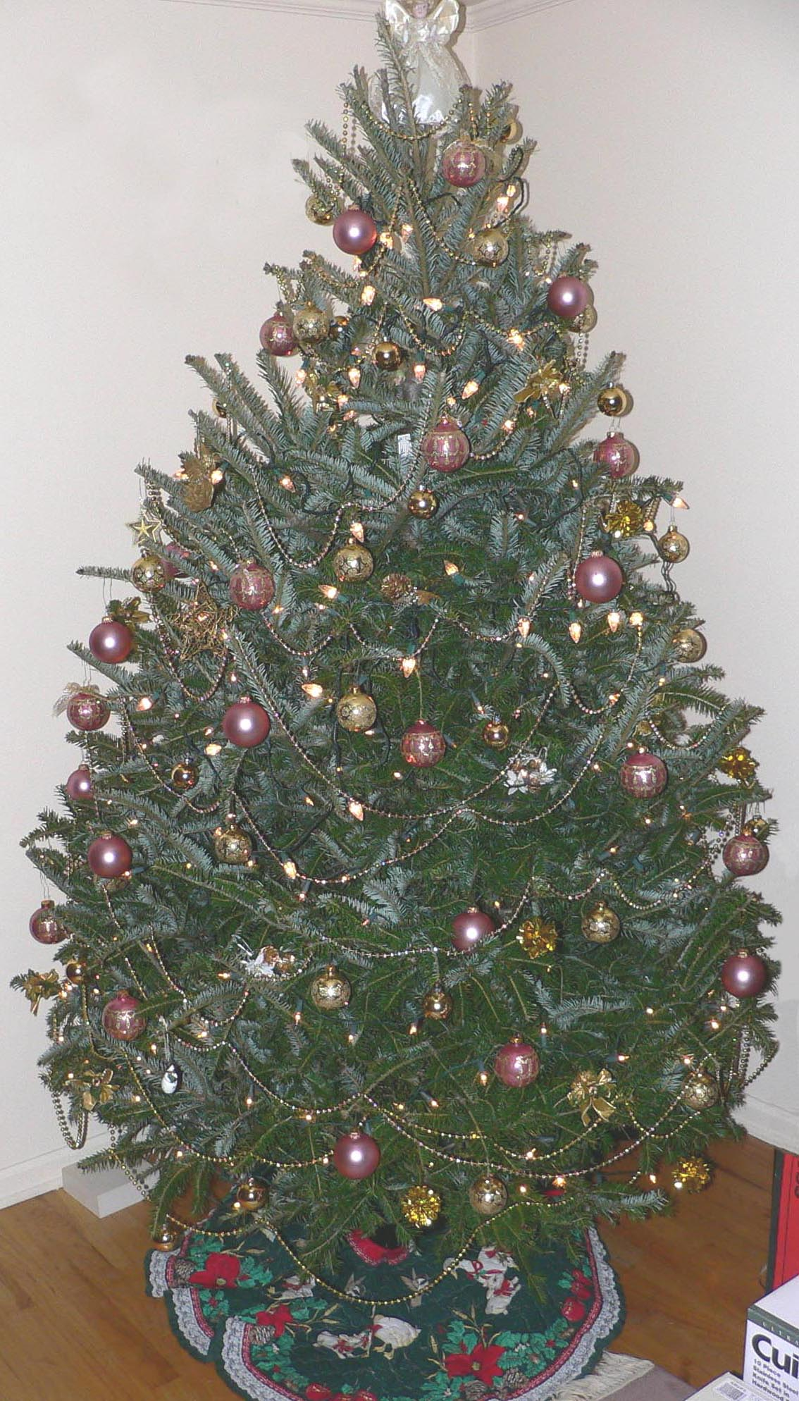 Picture of a Christmas Tree Taken by →Raul654 on December 27, 2004.